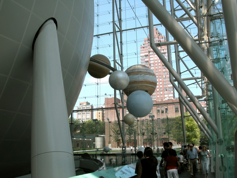 American Museum of Natural History, New York, USA